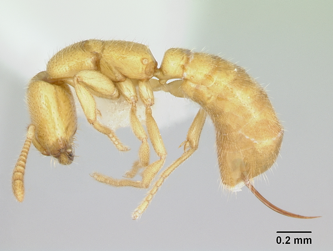 Profile view of ant Adetomyrma venatrix specimen casent0172771.